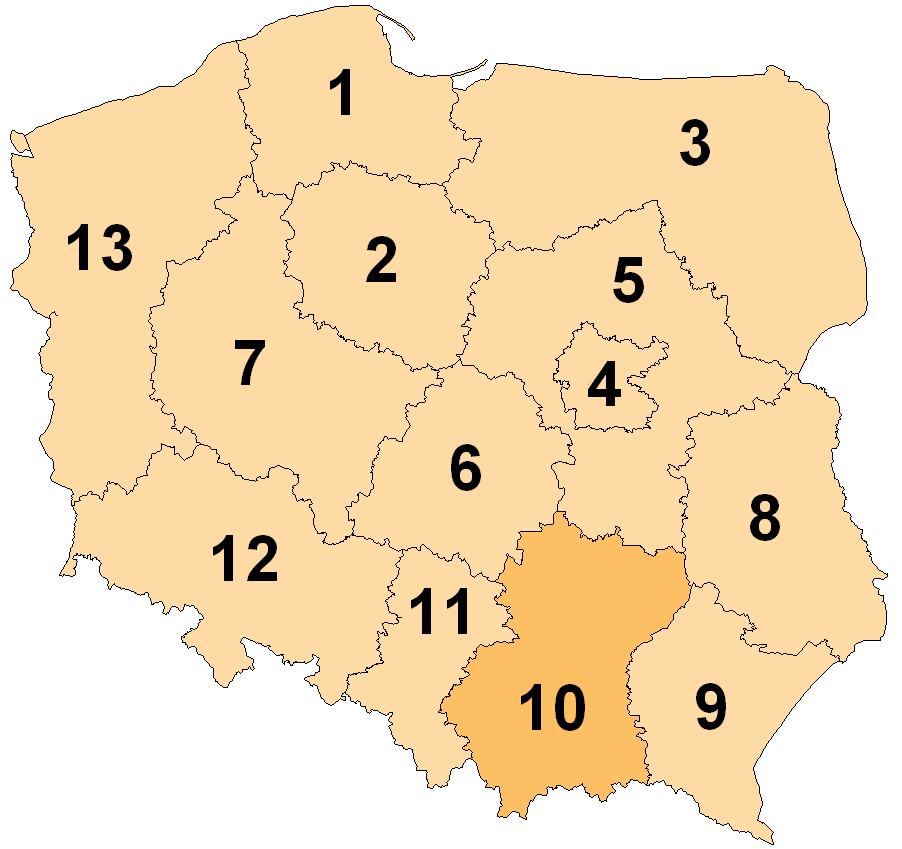 Lesser Poland and Świętokrzyskie (European Parliament constituency) - European Parliament constituencie in Poland